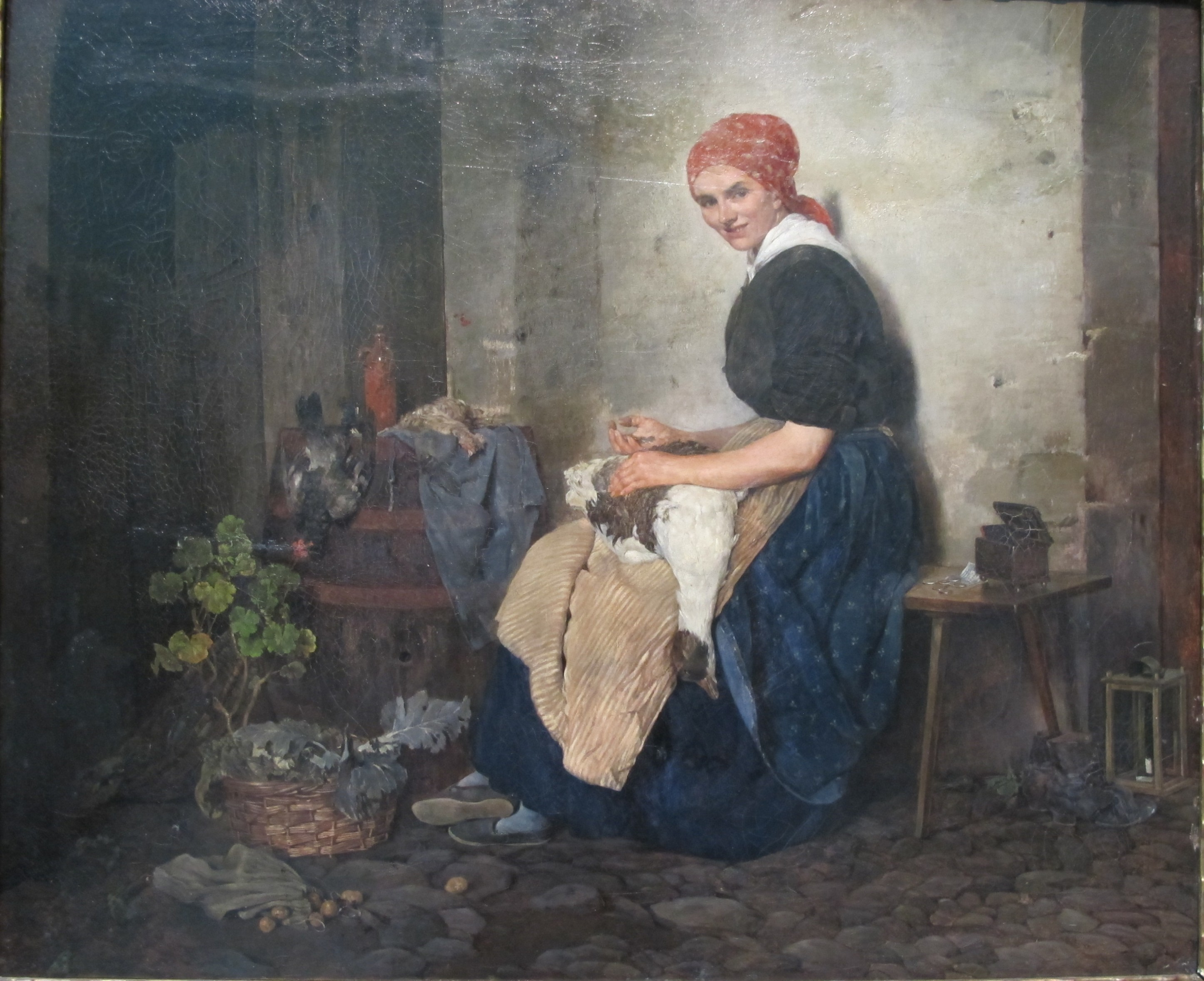 Painting by A. Hölzel